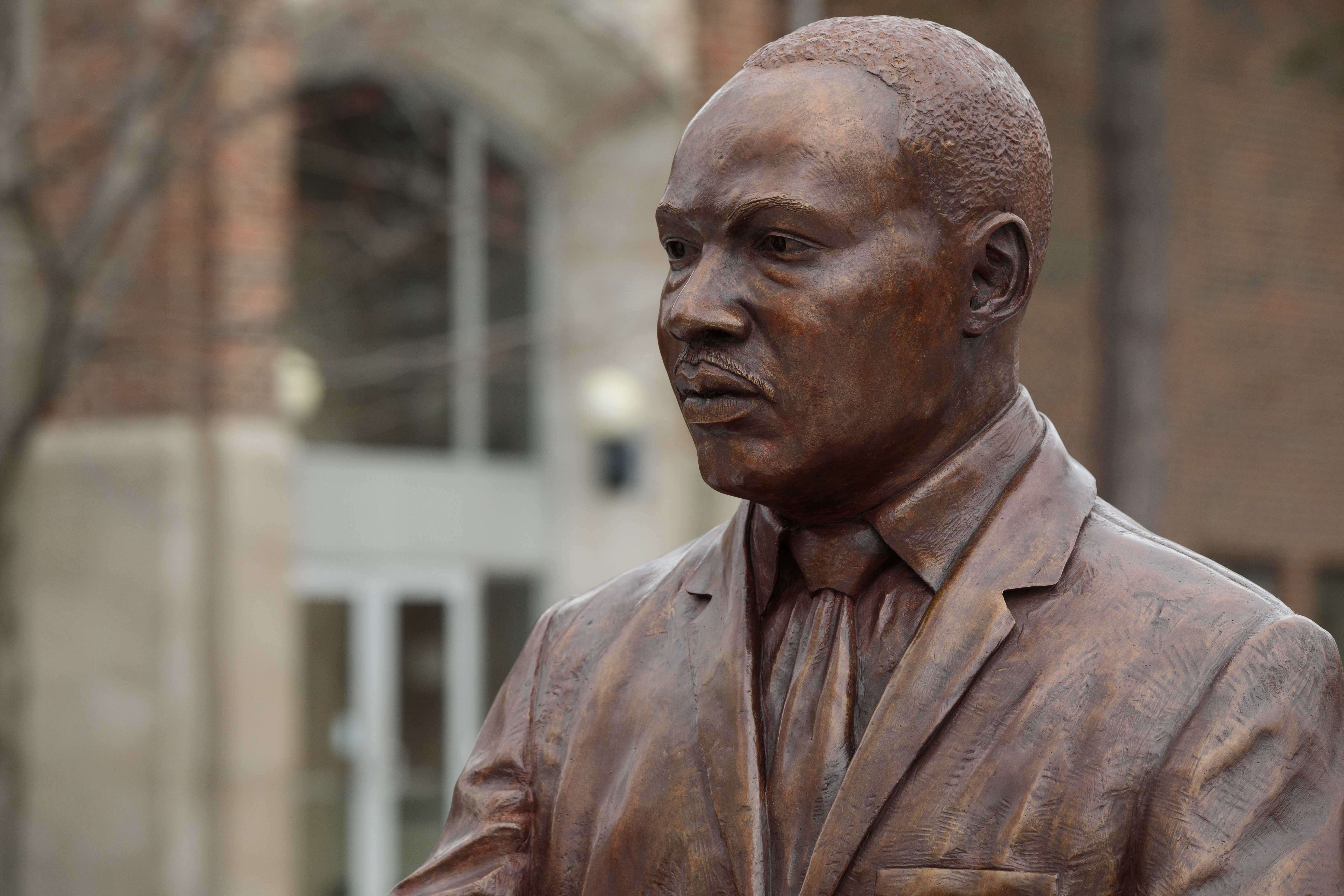 Photo of Martin Luther King Jr. statue at Ohio Northern University